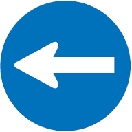 Luxembourg road sign diagram D,1a left now